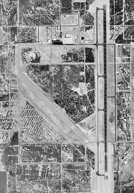 Aerial image of Jacqueline Cochran Regional Airport, California